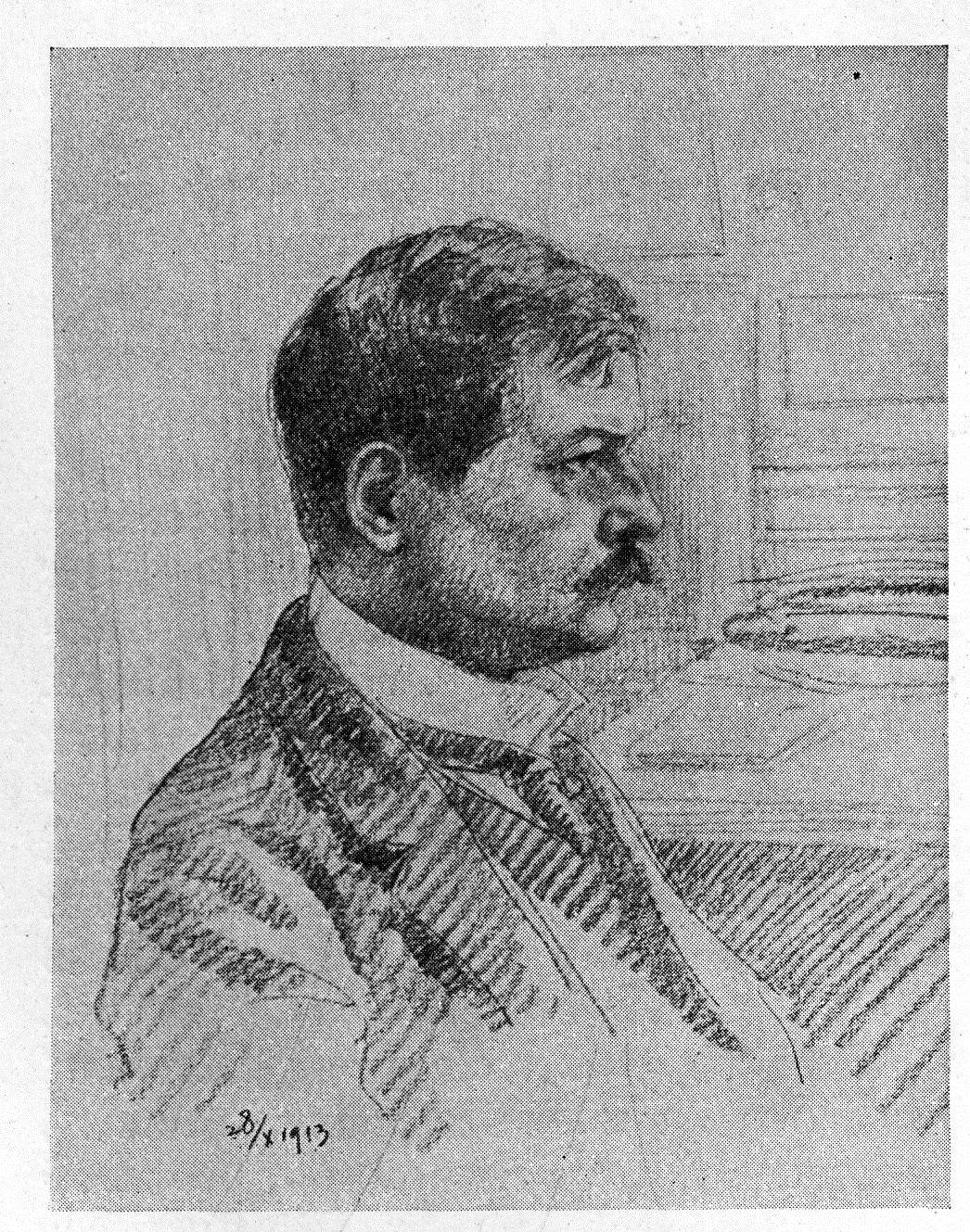 Josef Engelhart Self-Portraits 1913